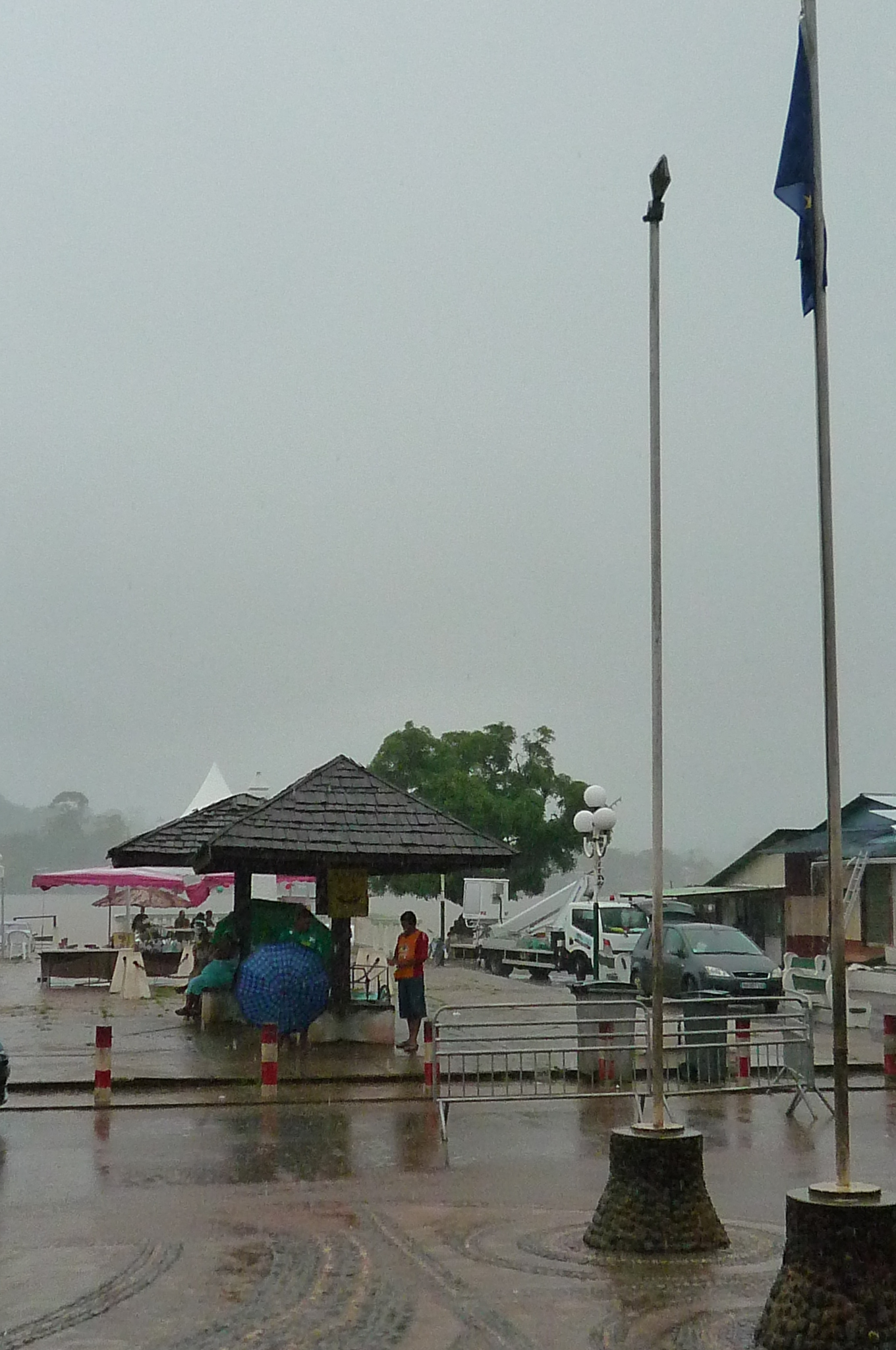 Market place, a rainy day (wet season), Oyapock river in the background.